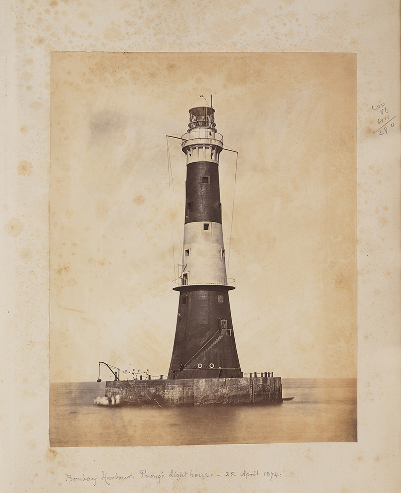 Title: Bombay Harbour. Prong's Lighthouse - 25 April 1874. Alternate Title: [Mumbai Harbour. Prong's Lighthouse - 25 April 1874] Creator: Johnson, William Date: April 5, 1874 Series: Photographs of Western India. Volume III. Scenery, Public Buildings, &c. Part of: Photographs of Western India Place: Mumbai, Maharashtra, India Physical Description: 1 photographic print: albumen, part of 1 volume (104 albumen prints); 26 x 20 cm on 42 x 35 cm mount File: vault_ag2002_1407x_3_288_bombay_opt.jpg Rights: Please cite Southern Methodist University, Central University Libraries, DeGolyer Library when using this image file. A high-quality version of this file may be obtained for a fee by contacting . For more information, see: View Europe, India, and Asia: Photographs, Manuscripts, and Imprints